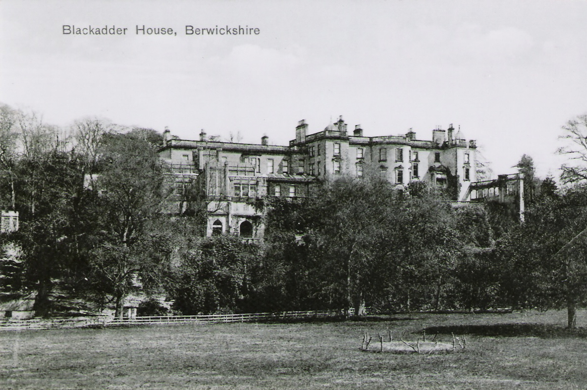 Old postcard of circa 1900. This image is well and truly out of copyright. It was on an old postcard and must have been taken in 1900 or before. There is no copyright claim on the postcard. Copyright rationale The original photographer is unknown. From the date of the image it is presumed the photographer died over 100 years ago and the photo is now out of copyright. However, even if it was a shorter time, it is presumed that it is still out of copyright under UK law, which is the jurisdiction that applies to this image. See Copyright_law_of_the_United_Kingdom#Extension_of_copyright_term as reproduced below: Prior to 1 January 1996, the UK's general copyright term was life of the author plus 50 years. The extension to life of the author plus 70 years was introduced by The Duration of Copyright and Rights in Performances Regulations 1995 (SI 1995/3297); which had the effect of making EU Council Directive No. 93/98/EEC, created to harmonise the duration of copyright across the European Economic Area, law in the UK. It contained a controversial provision which meant that certain copyrights were revived: material that had been in the public domain came back into copyright. The normal practice of British law would have been to freeze the extension of the public domain, rather than reviving copyright. Such retrospective laws are very rarely enacted. If the 1988 Act offered a shorter term of protection than under the new regulations, if anywhere in the EEA a work was under copyright protection on 1 July 1995, then the copyright of that work was revived. If the 1988 Act offered a longer term than the new regulations, then the old longer term still applied.